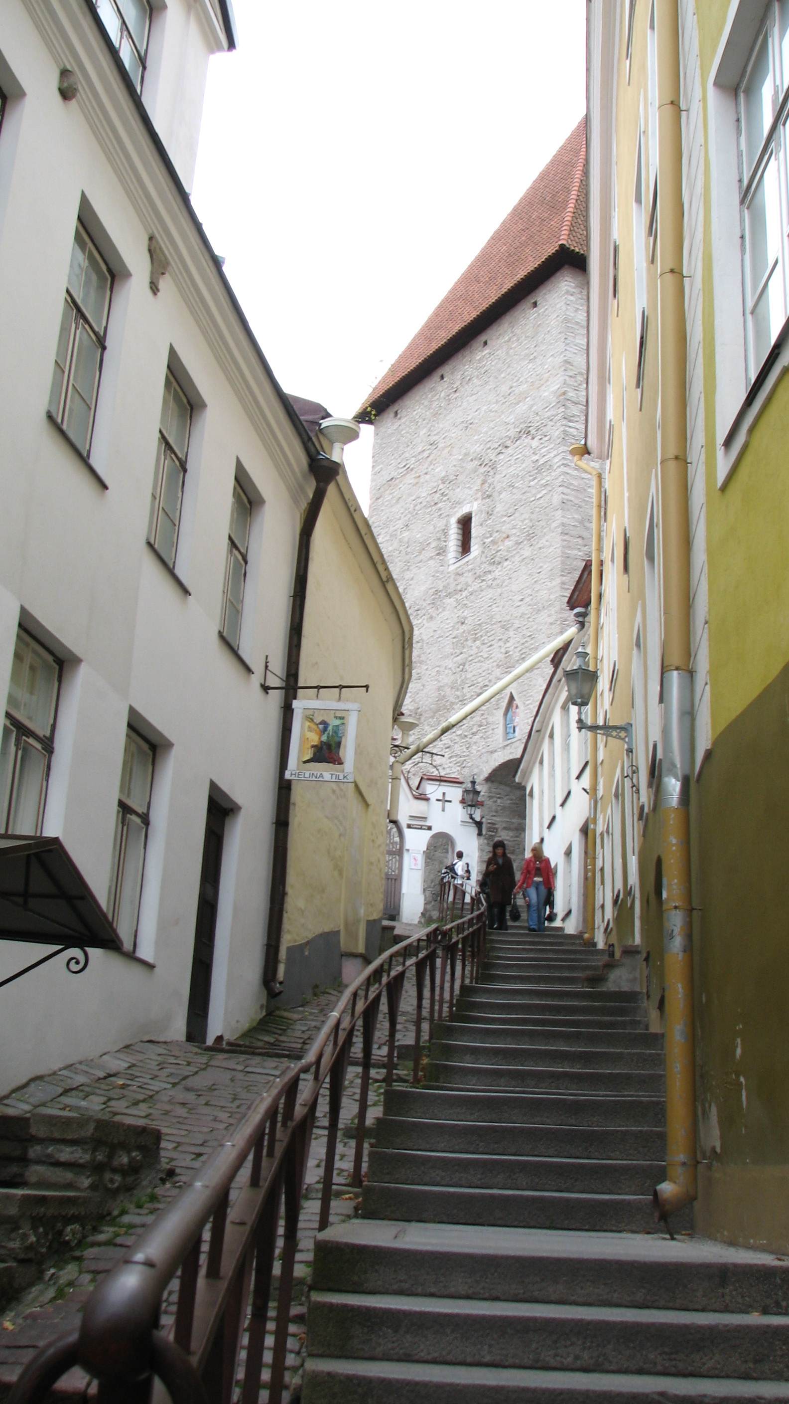 Street in Tallinn old town called Lühike Jalg